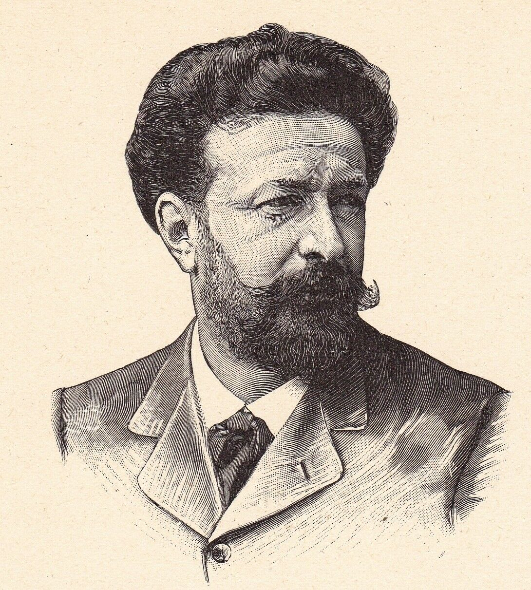 Italian/French painter Georges Picard (1857-1943)